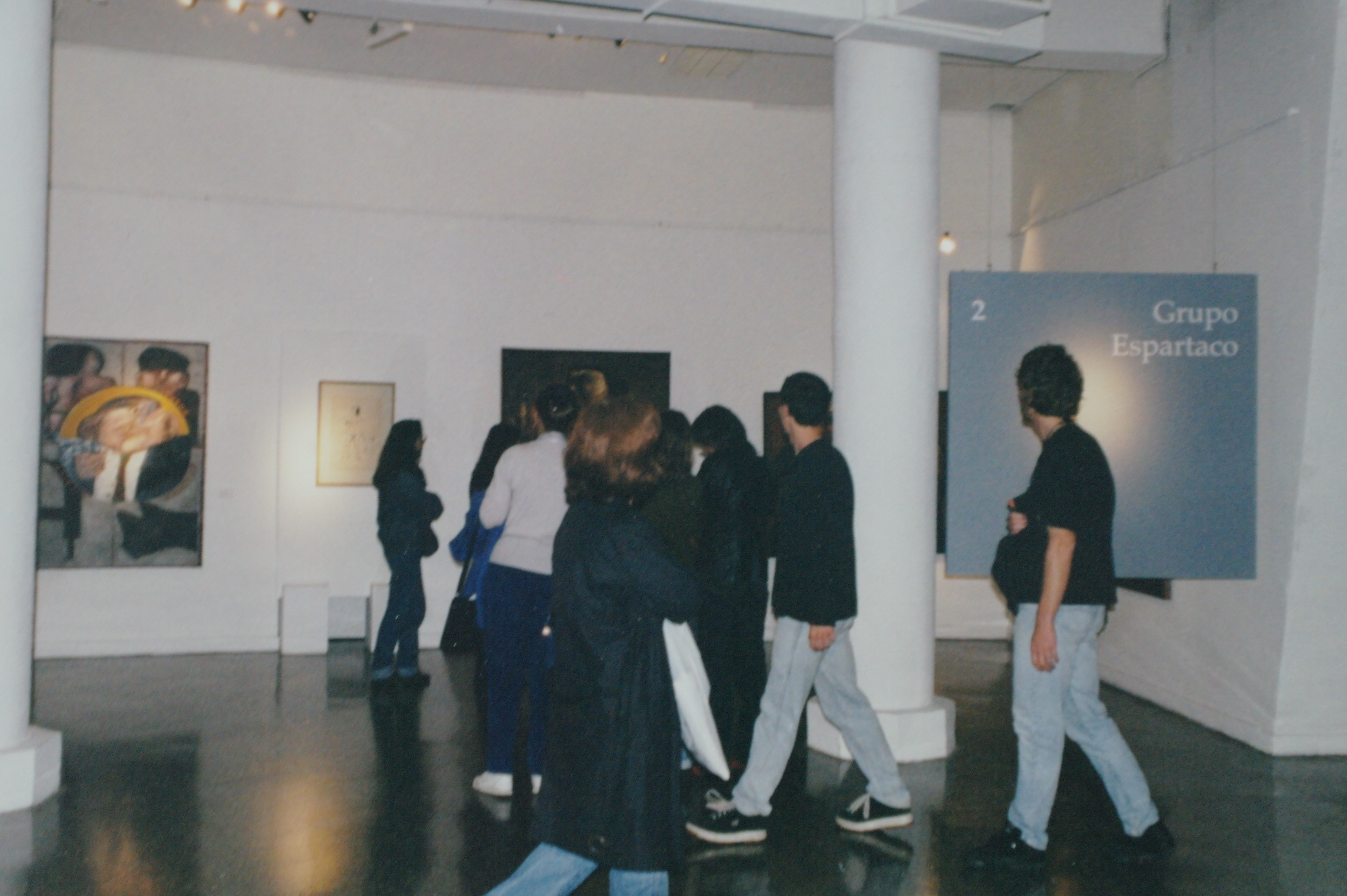 Expo arte y política, seccion espartaco